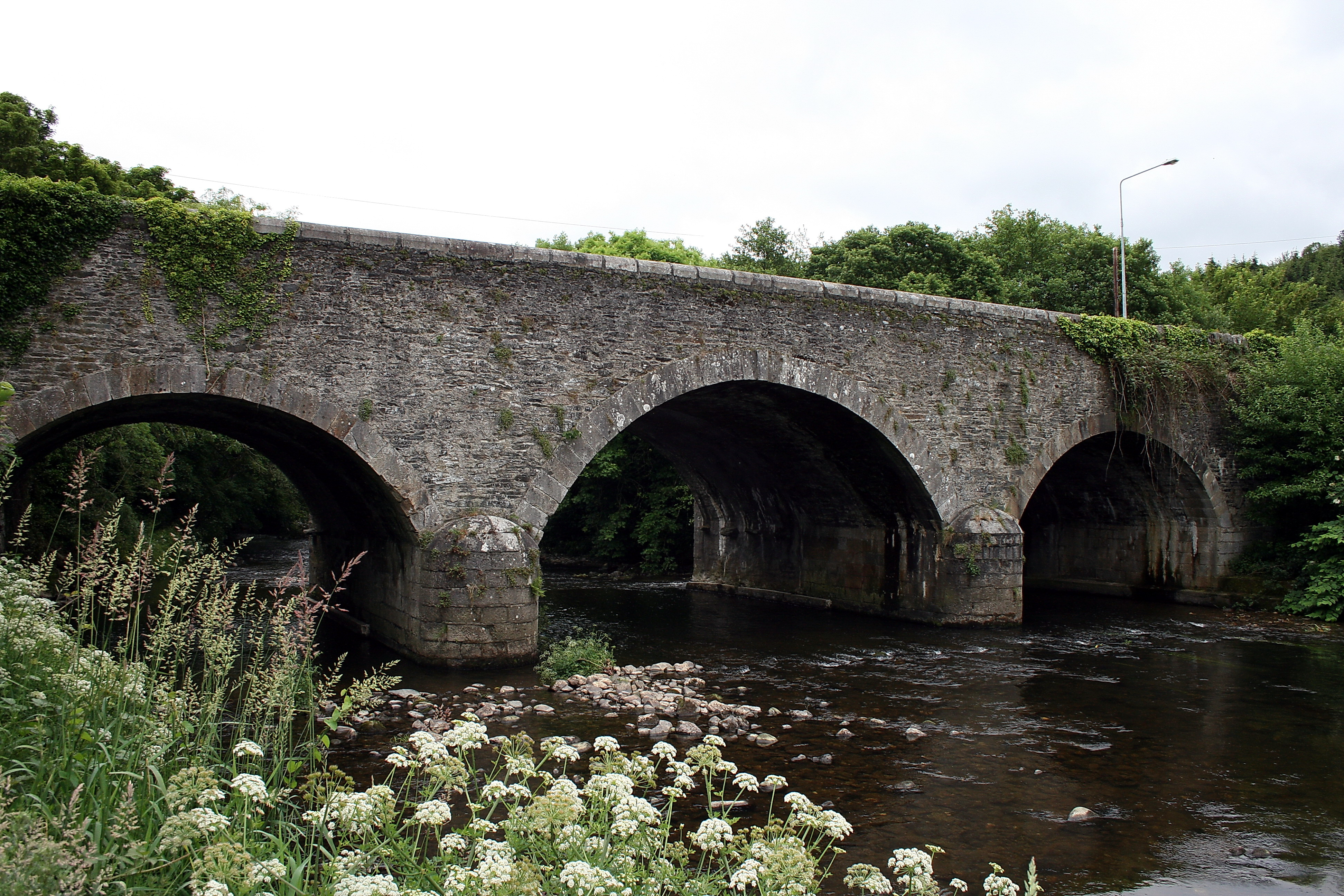 Bridge carrying the R747 over the Aughrim River at Woodenbridge, County Wicklow